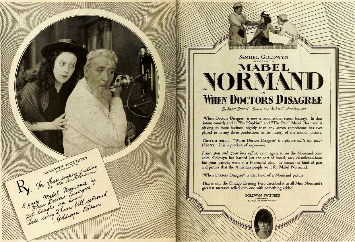 Ad for the American comedy film When Doctors Disagree (1919) with Mabel Normand and Alec B. Francis, on pages 1724 and 1725 of the June 21, 1919 Moving Picture World.